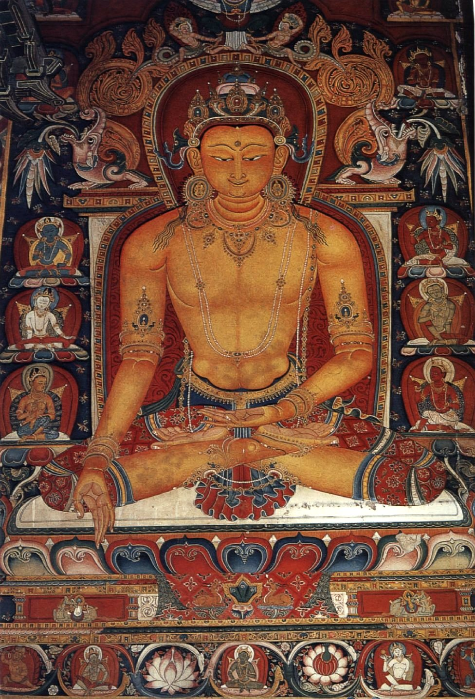 Ratnasambhava. Mural. Shalu Monastery, ca. 1306